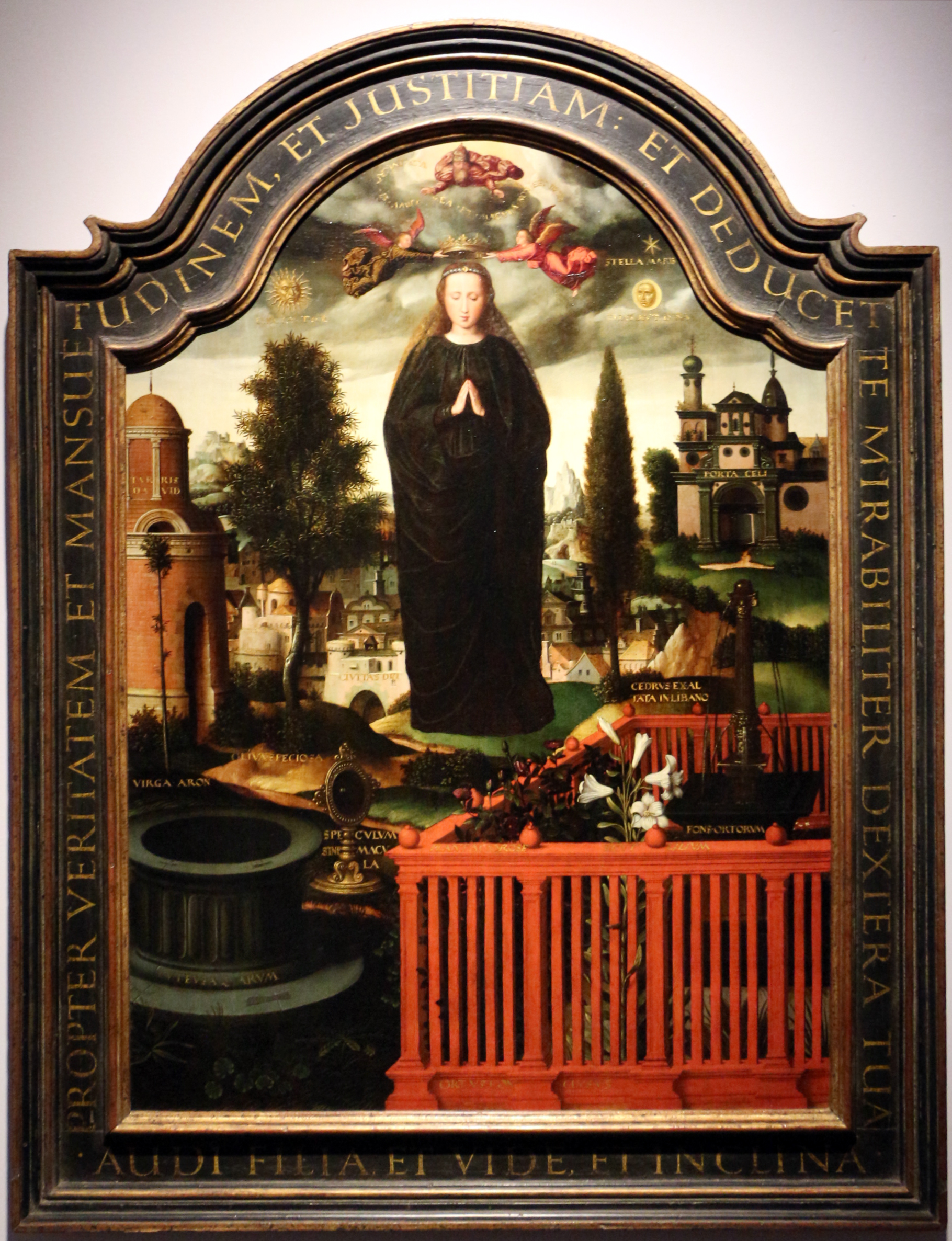 Flemish paintings in the Bonnefantenmuseum